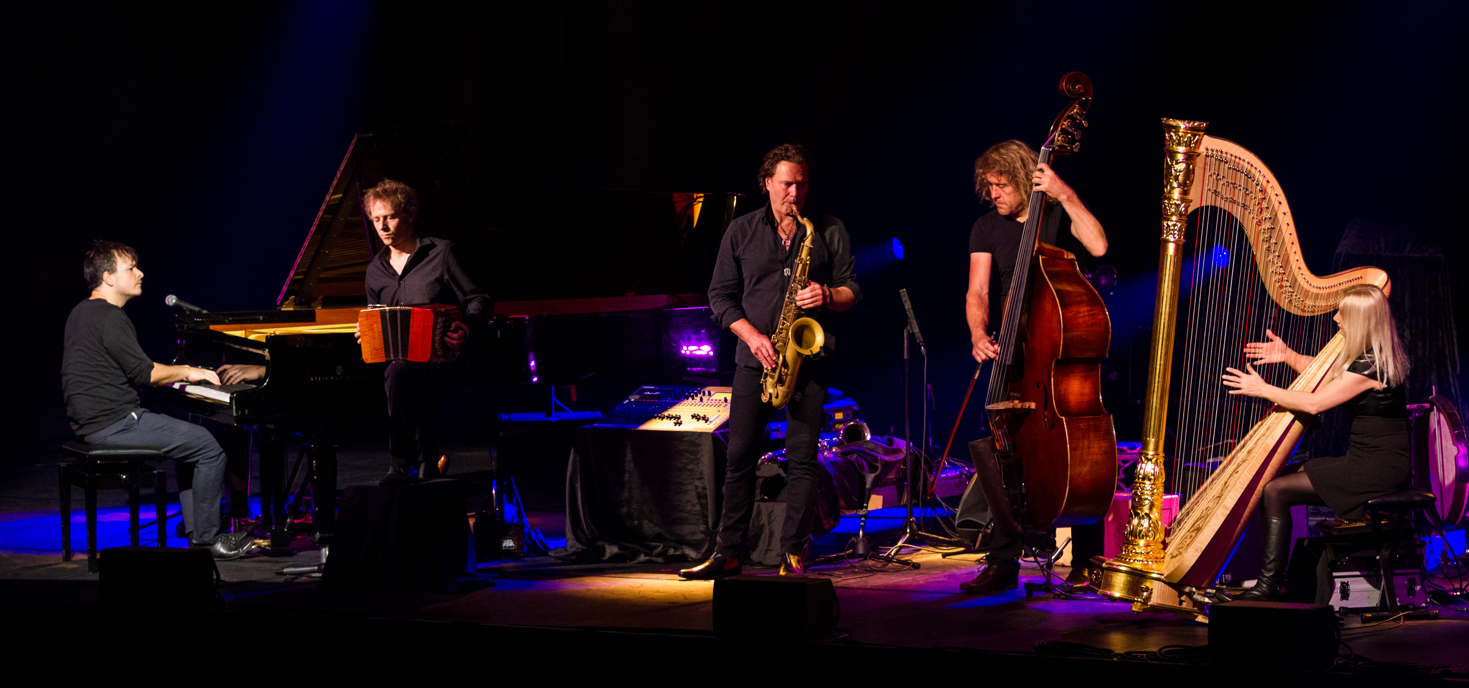 Quadro Nuevo plus pianist Chris Gall - Leverkusener Jazztage 2015